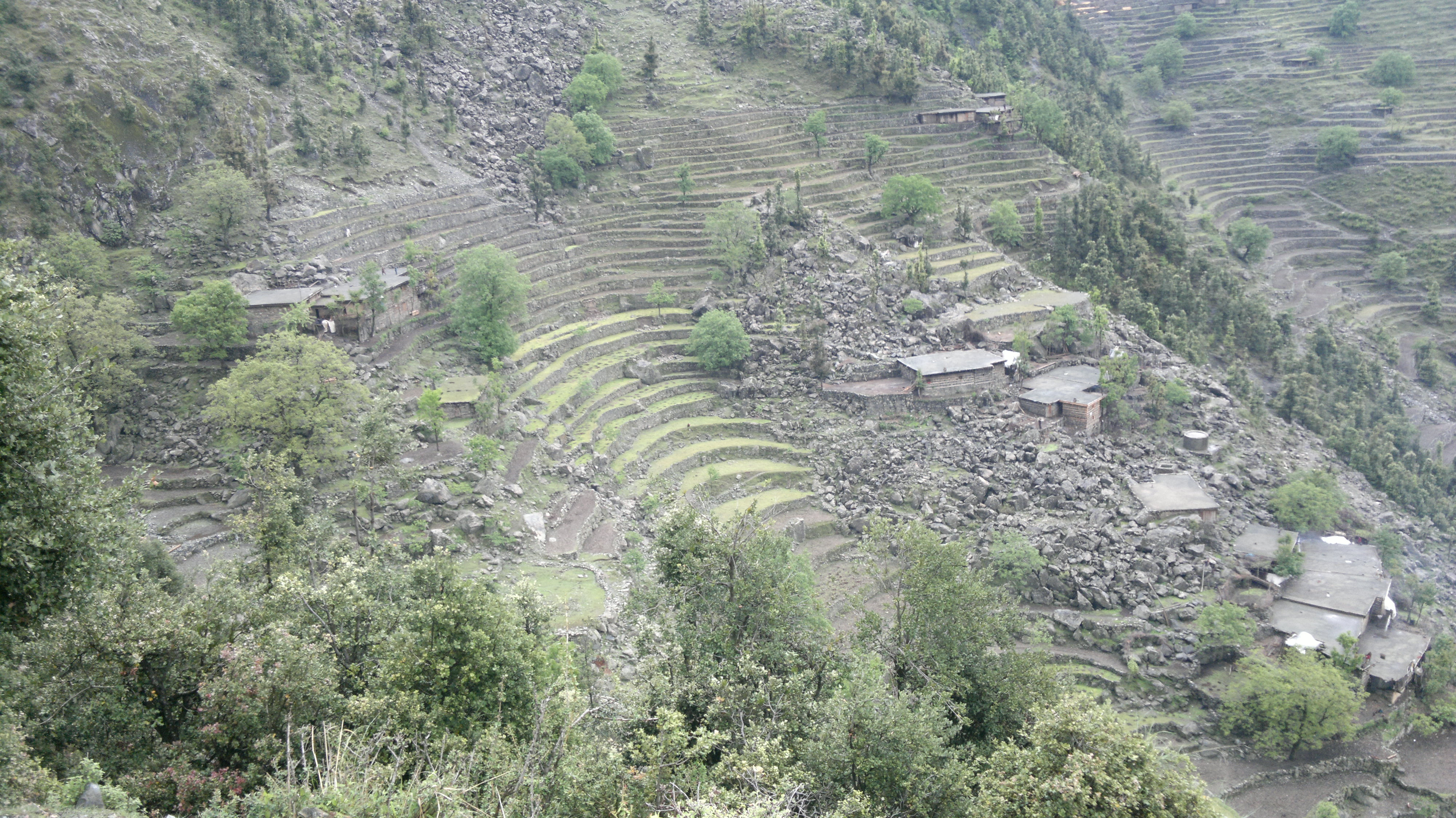 Dabru Shaikhdara